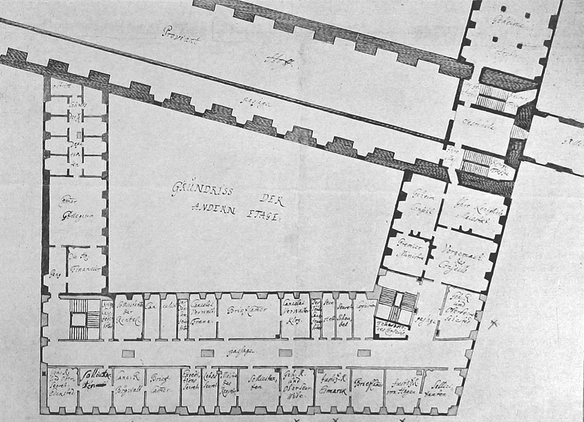 Kancellibygningen in Copenhagen. It was built in 1721 and now domicile of the Danish Ministry of Finance.